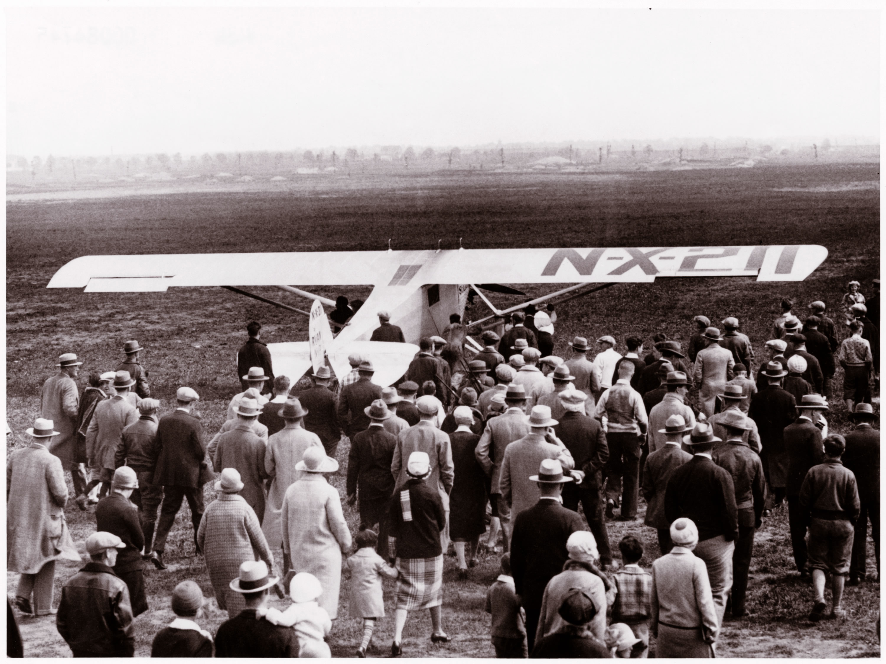 Nearly a thousand people assembled at Roosevelt Field to see Charles Lindbergh off on his historic flight. Underwood and Underwood. Image Number: SI-77-2701 Credit: National Air and Space Museum Archives, Smithsonian Institution